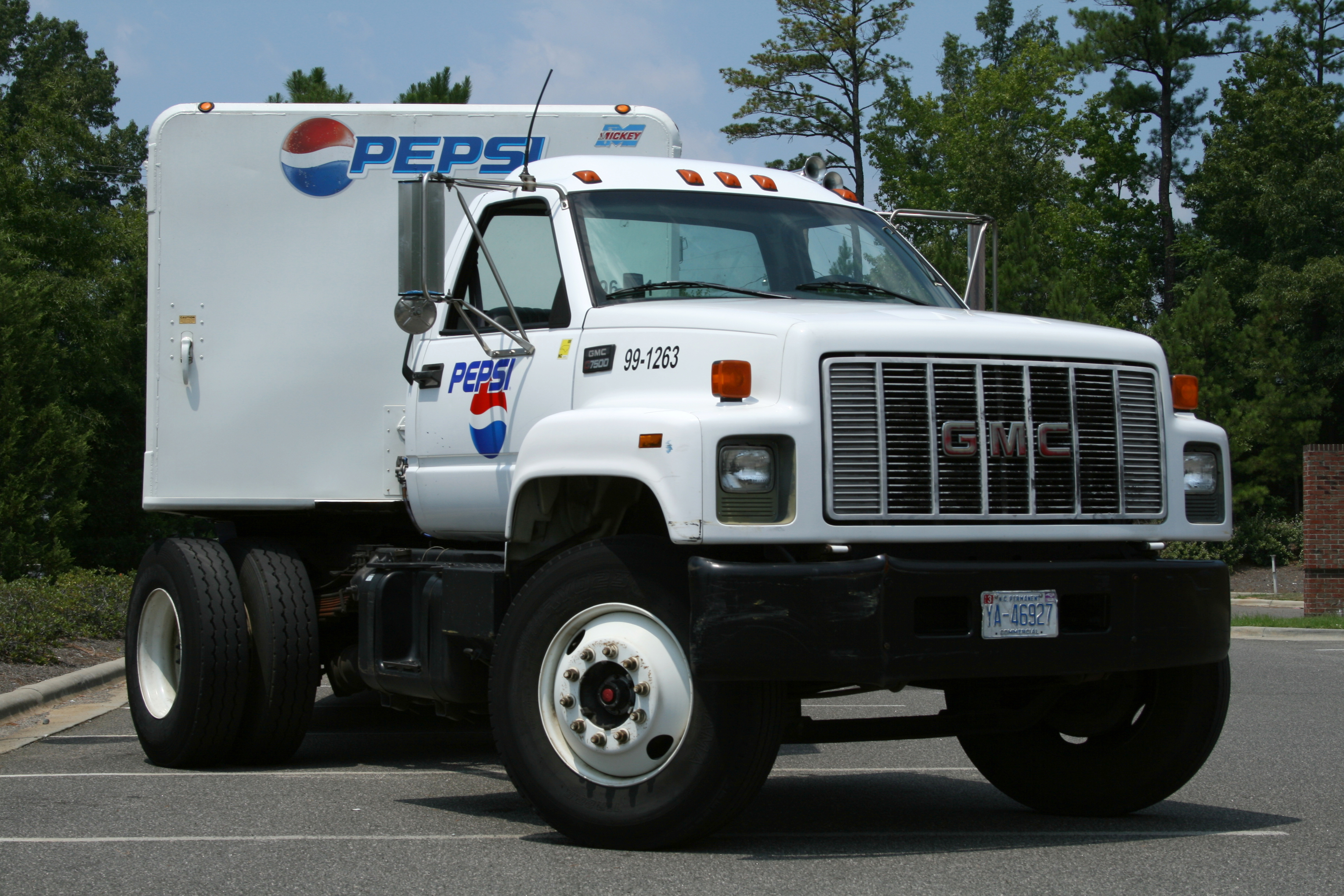 GMC 7500 Pepsi truck parked at CVS Pharmacy in Durham, North Carolina, showing the old style logo on the door, and the new style logo on the truck.